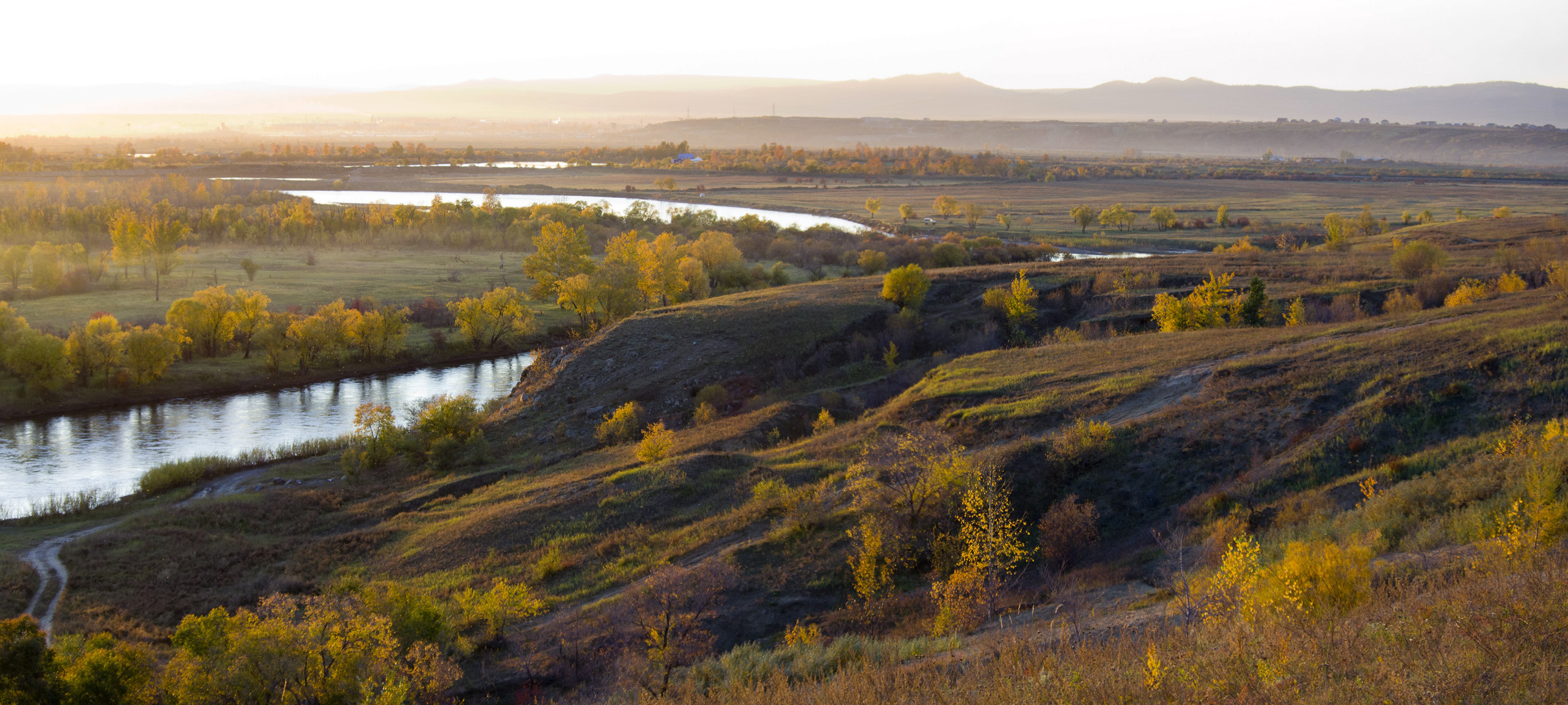 Landscape at Zabaykalsky Krai